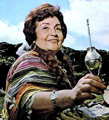 Margarita Palacios, Argentina, Catamarca. Folk singer and cuisiner (gastónoma).